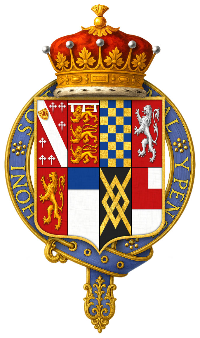 Coat of arms Sir Thomas Howard, 21st Earl of Arundel, KG